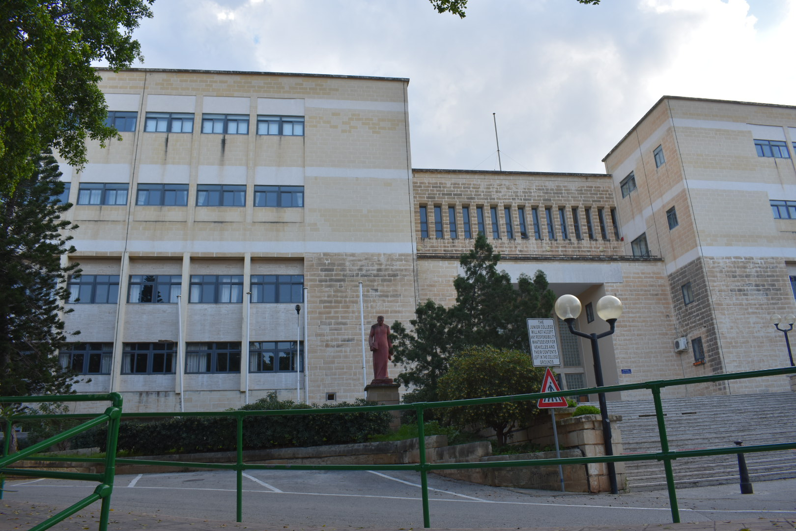 Pietà Malta Buildings